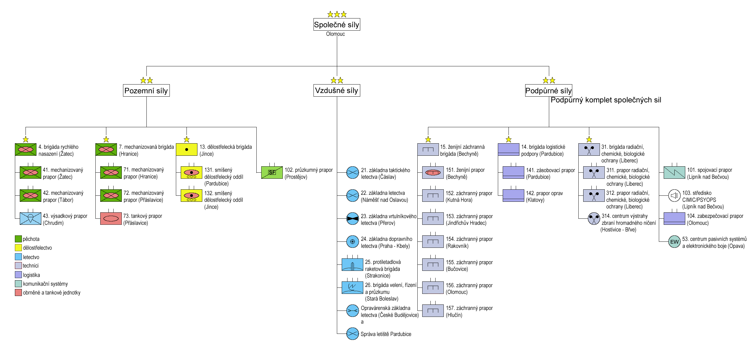 Joint Forces of Czech Armed Forces.